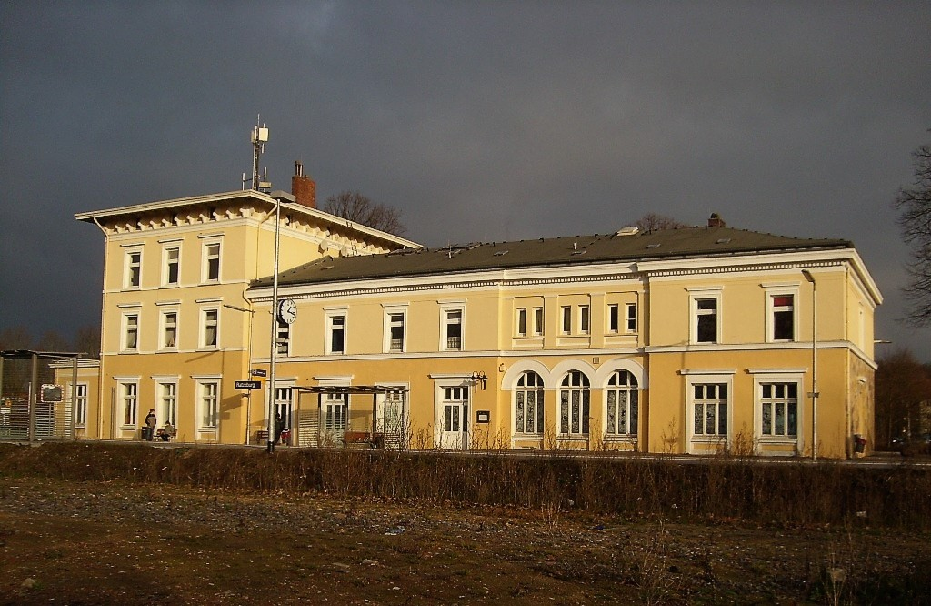 Train station in Ratzeburg, district Herzogtum Lauenburg.